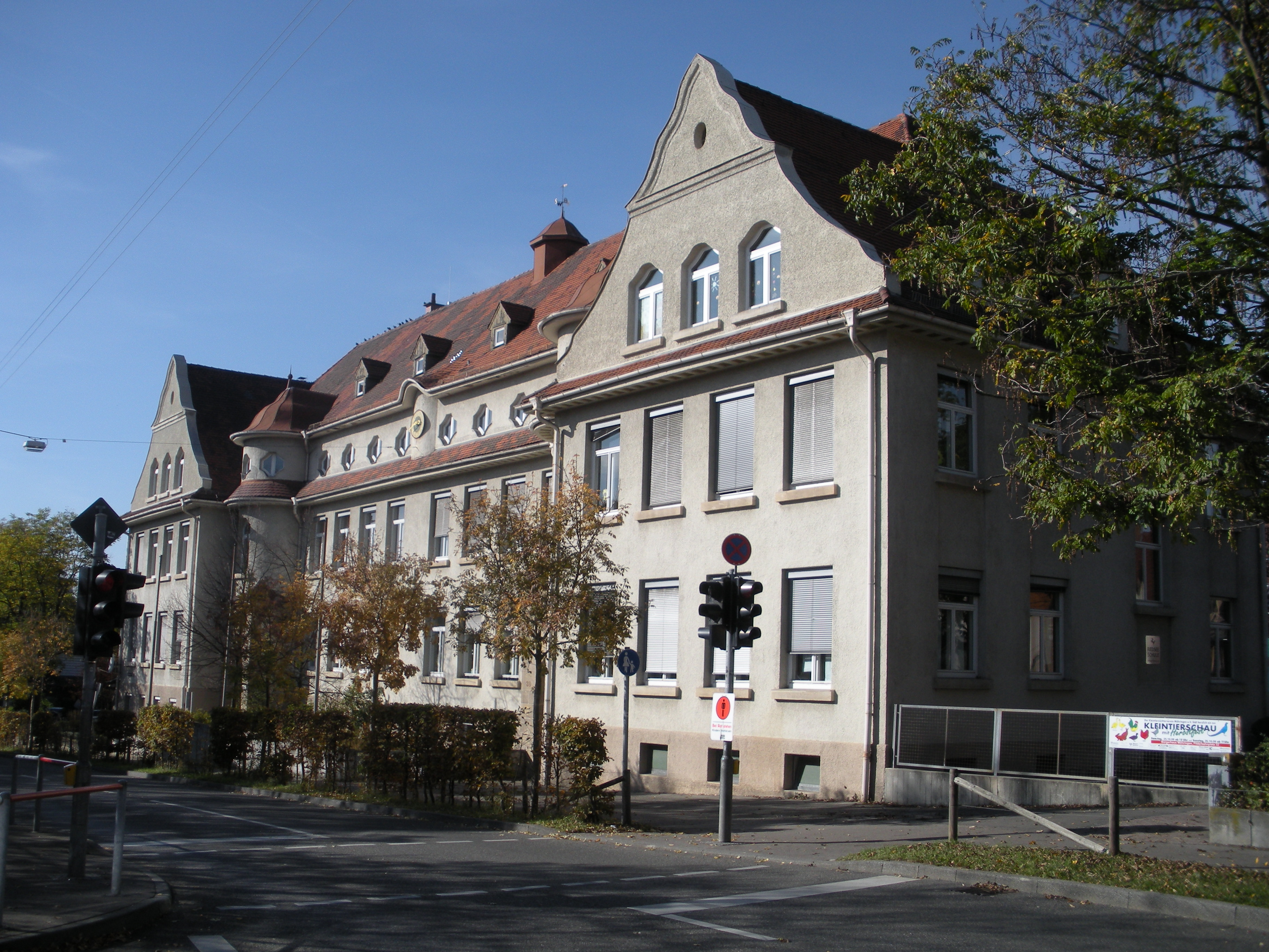 Primary School in Stuttgart-Möhringen